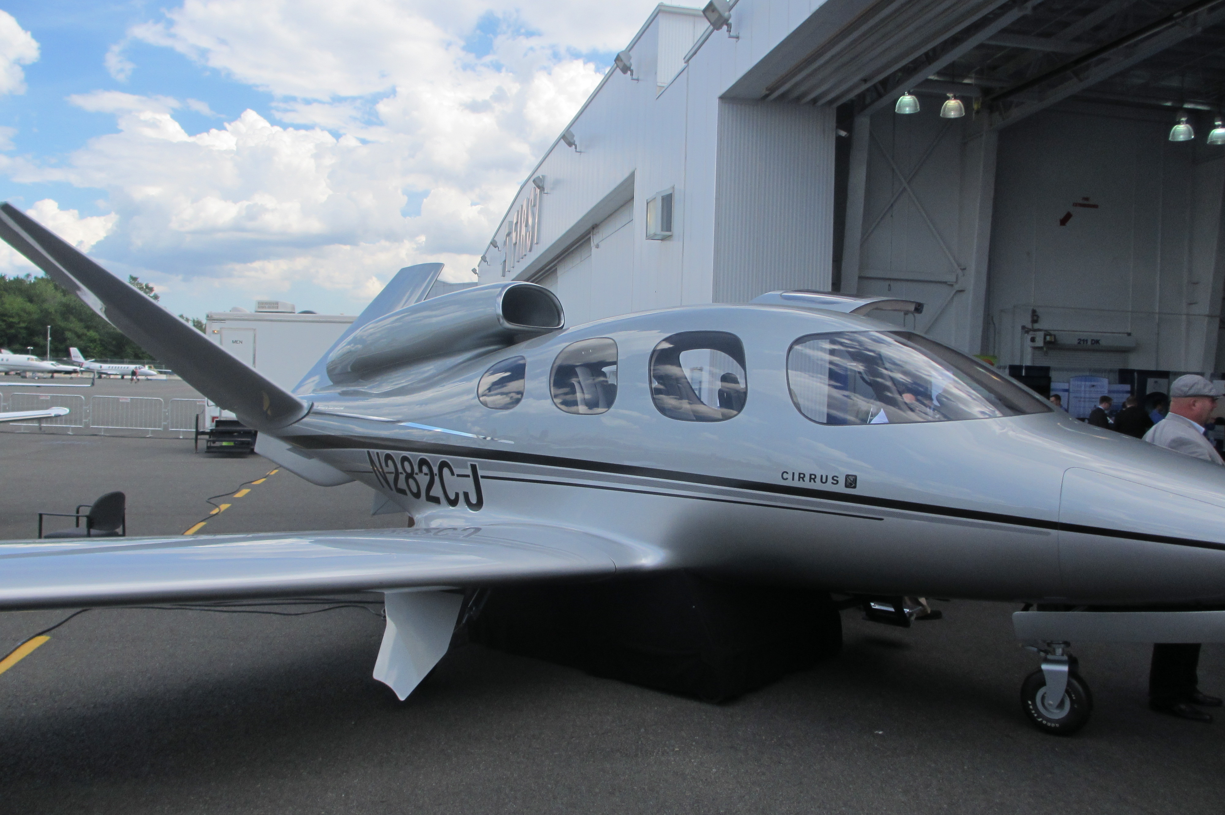 A mock-up of the Cirrus SF50 single engine jet aircraft.